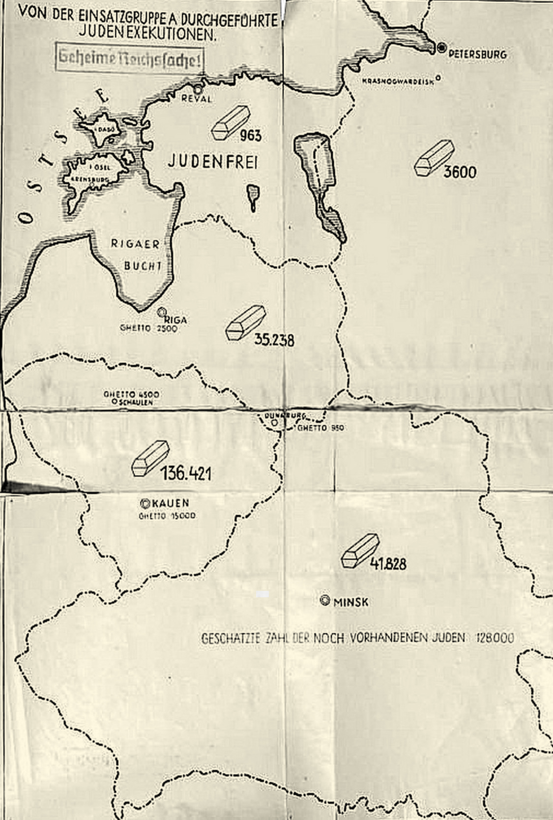 Supplement to the second report of the leader of Einsatzgruppe A, Dr. Franz Stahlecker, about the actions of Einsatzgruppe A for the period 16 October 1941 to 31 January 1942. Russian State Military Archive (RSMA), Moscow